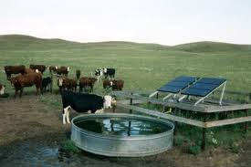 this is solar water pump which is so usefull for farmers upto 5 hp